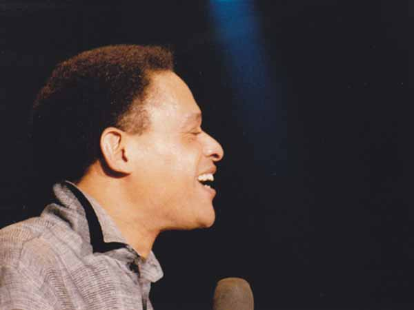 Al Jarreau in Montreux (possibly) around 1986